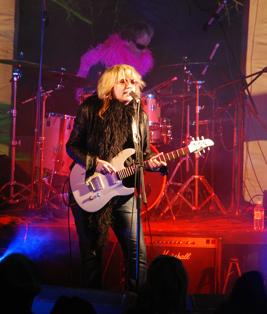 Karen Zoid at Oppikoppi - Unknown Brother - 2011